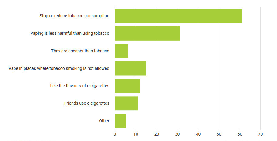 Three reasons why they started using e-cigarettes (2018).